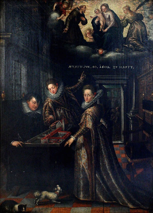 Anne Juliana Gonzaga with her daughters Archduchess Maria of Austria (1584–1649) and Anna of Tyrol